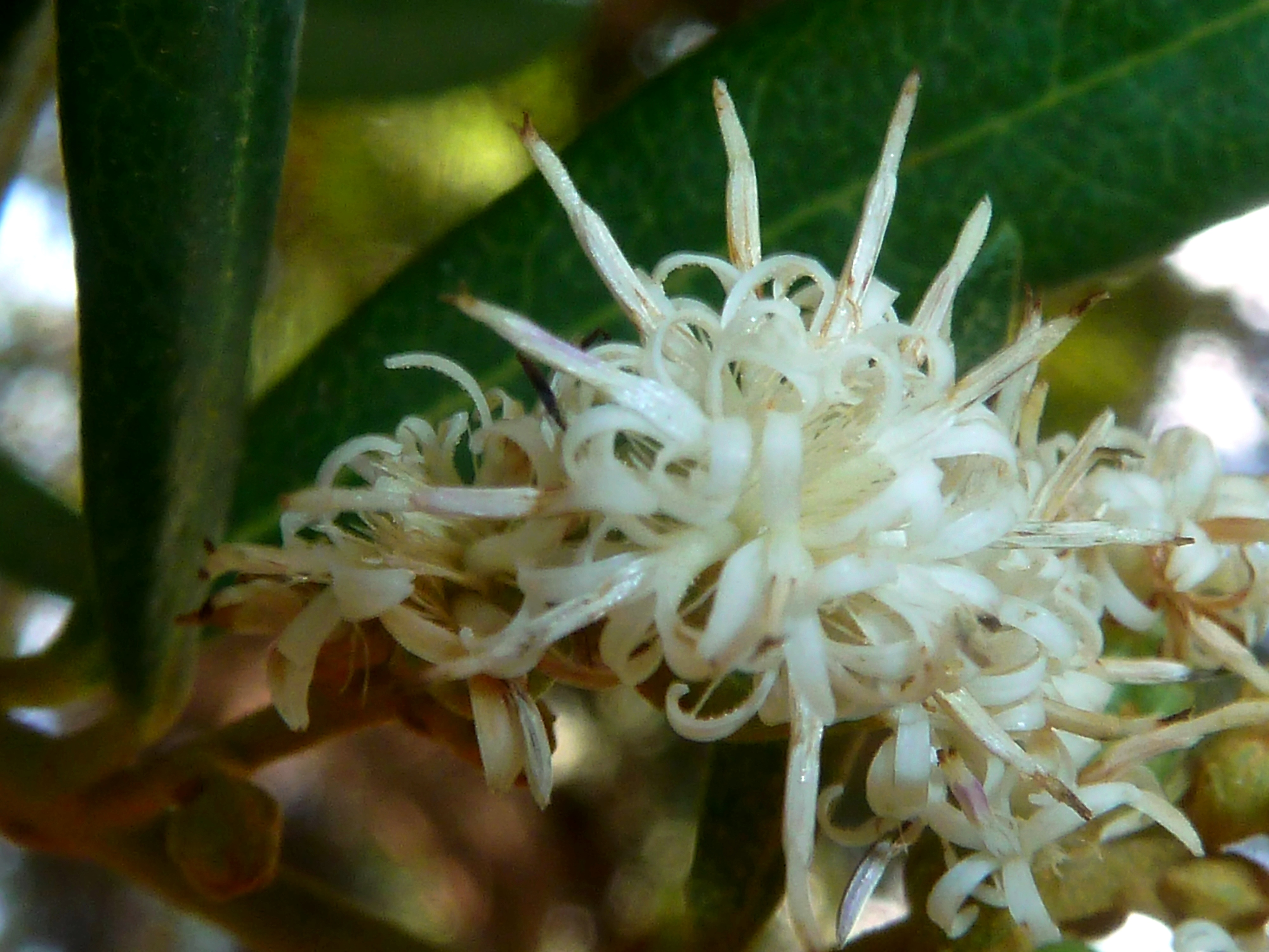 Flower head of a Water white elder in the Manie van der Schijff Botanical Garden, Pretoria